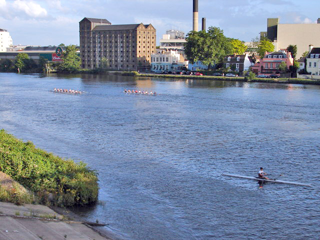 The Thames, Budweiser Brewery, The Ship, one Singlehander and Two Coxed Eights All in one frame! The "Bud" Logo is just visible behind the leftmost eight. The Ship pub is just behind the rightmost eight.